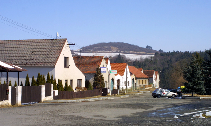 Houses along the northern side of village green in Nadryby, Czech Republic. The Chlum Hill rises in the background.